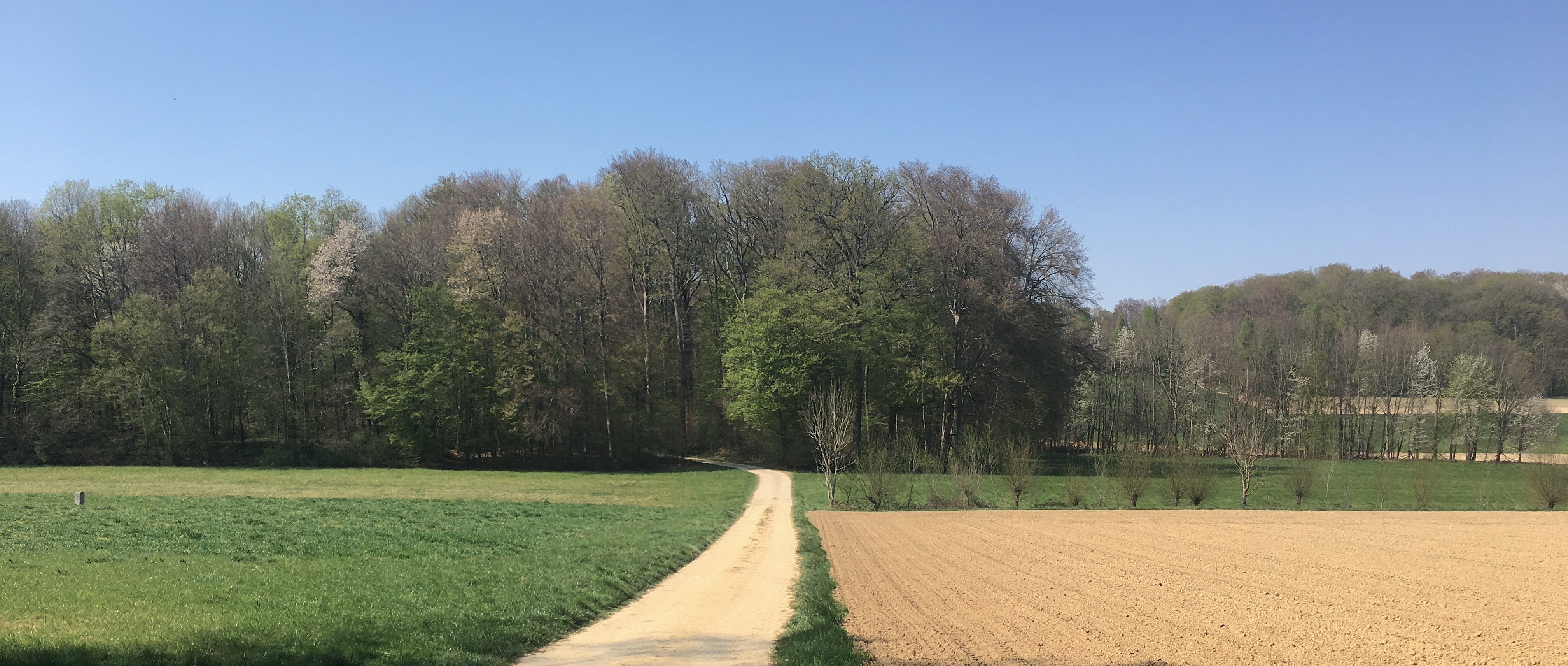 Holzmatt southern entry to Benkenspitz